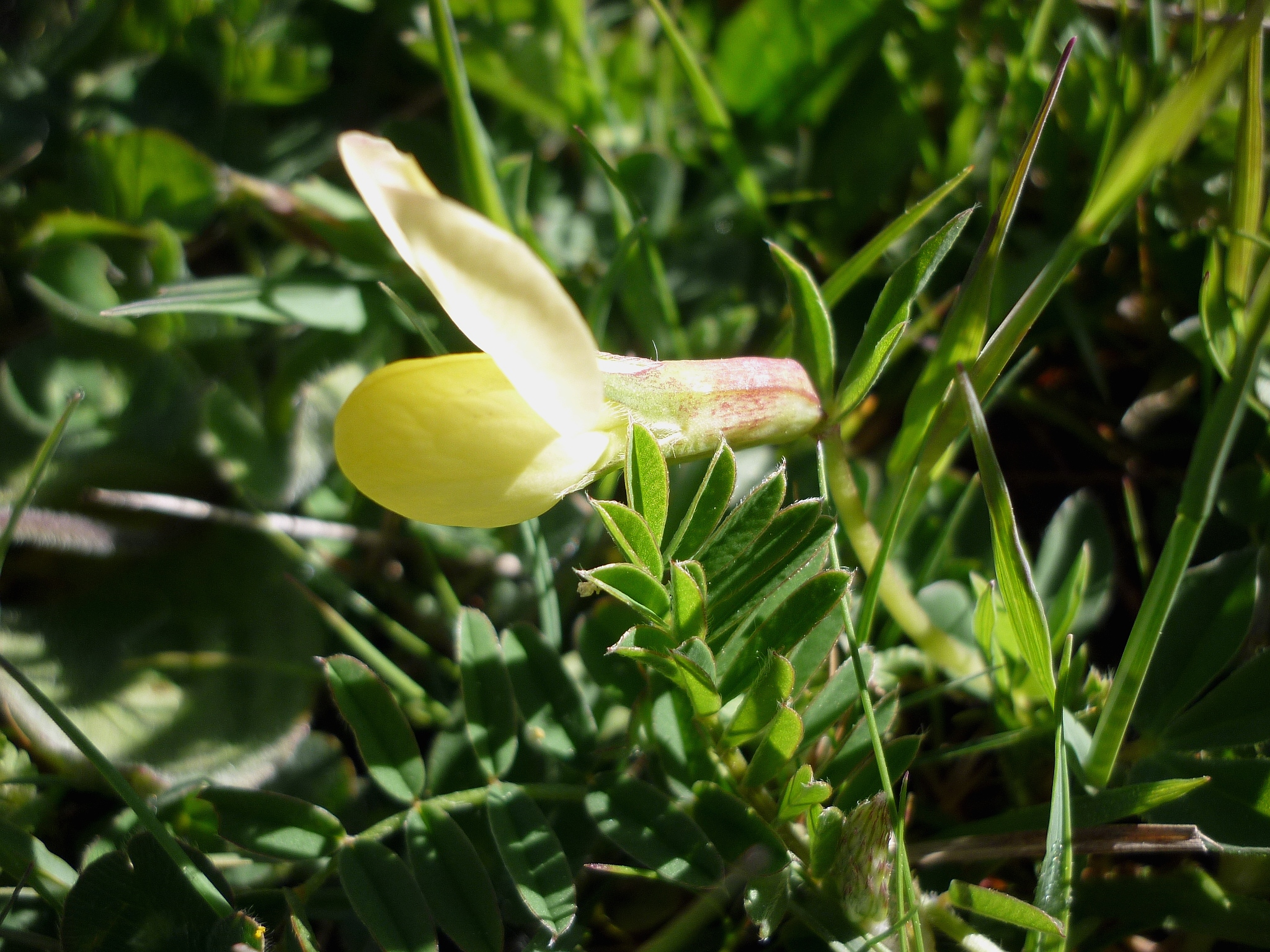 Tetragonolobus maritimus. Near Tossal de l'Àliga, in l'Alzina d'Alinyà (Alt Urgell-Catalunya). To 1.630 m. altitude